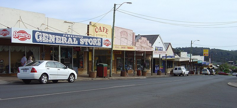 Vasse Highway (known as Brockman Street) in Pemberton, Western Australia